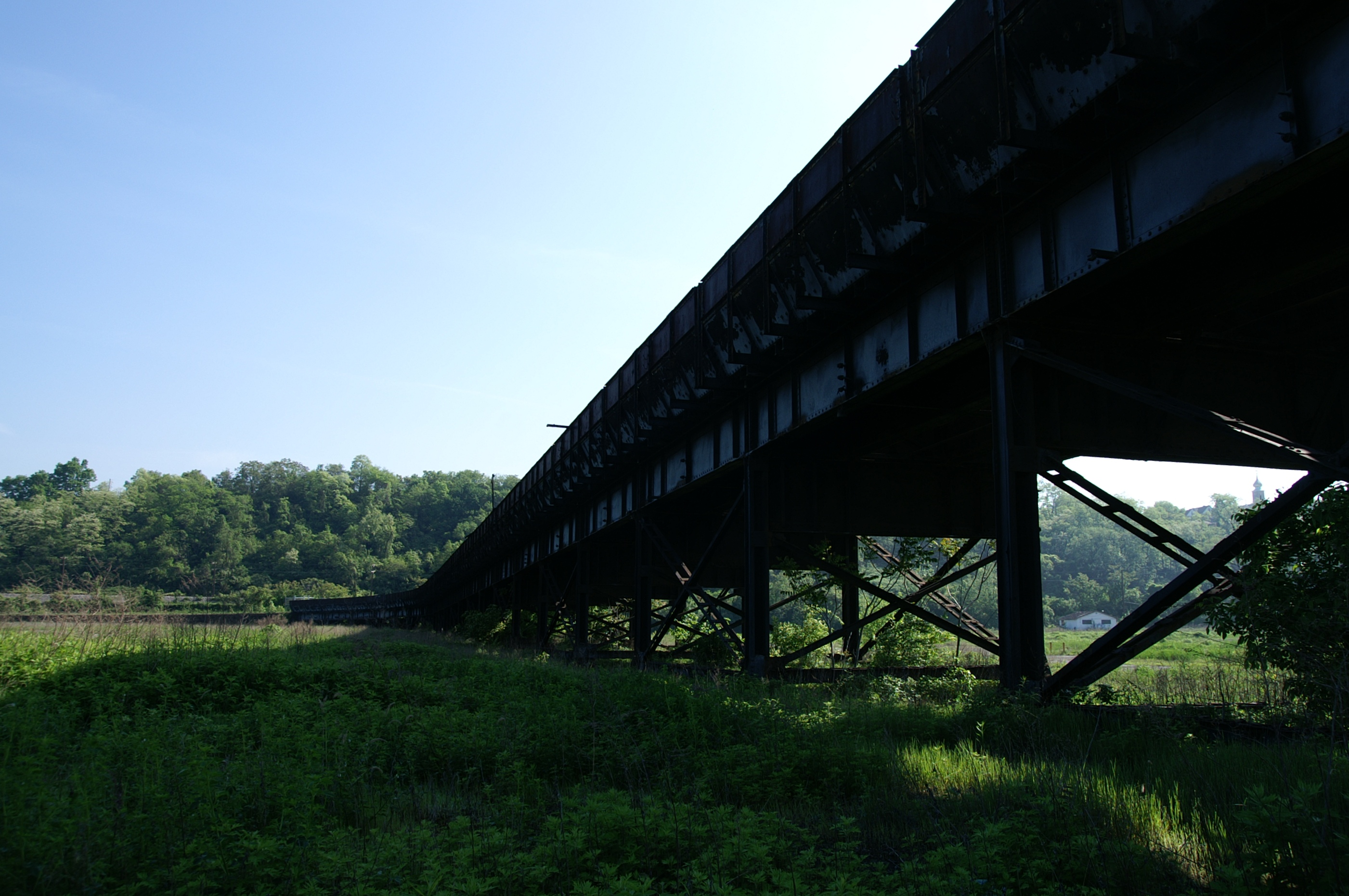 Rail trestle leading to the Hot Metal Bridge, which carried cars of molten iron across the river to the Homestead Works, for processing into steel.